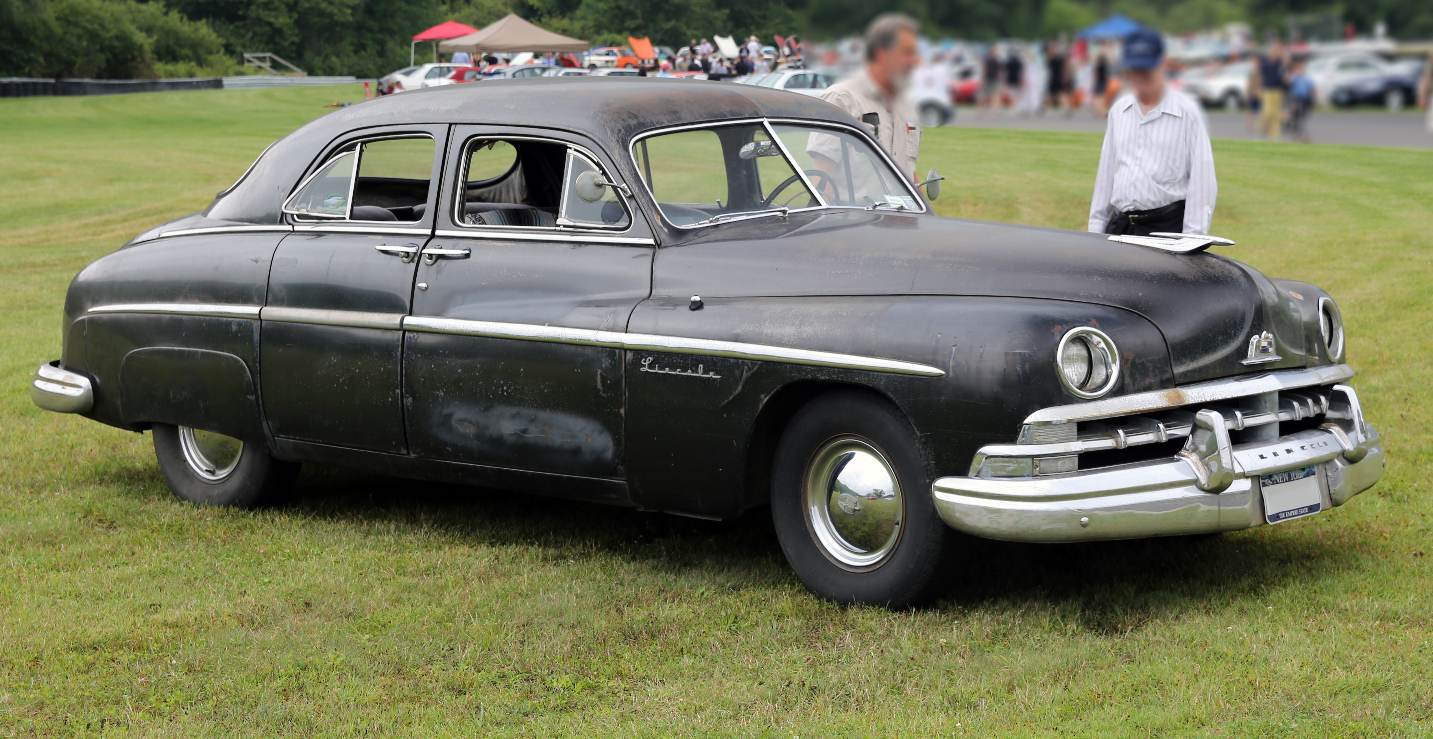 A 1950 Lincoln Sport Sedan, a standard four-door sedan, seen at the 2014 Lime Rock Concours d'Élegance. This unnamed model slotted in beneath the Cosmopolitan in the Lincoln lineup and shared lots with the contemporary Mercurys, although it did have a Lincoln engine. Unrestored condition, I presume. A rare beast: as of 1992 only 26 Lincoln Sport Sedans from 1950 remained registered in the United States.